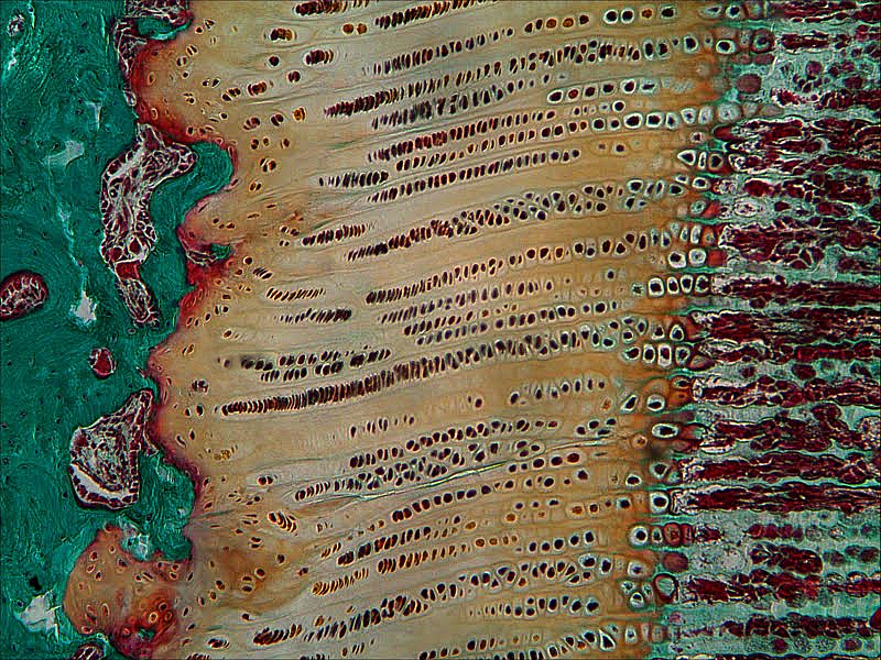 Shows the growth zone on a tibial bone from a rabbit, identical to a human growth zone.